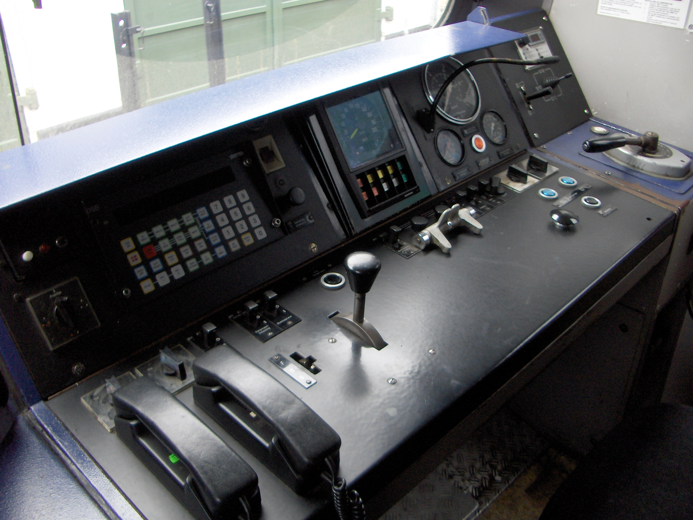 Instrument panel of the cab in DSB class MRD #4288, now a museum train, in Randers, Denmark, at a railfan meeting.